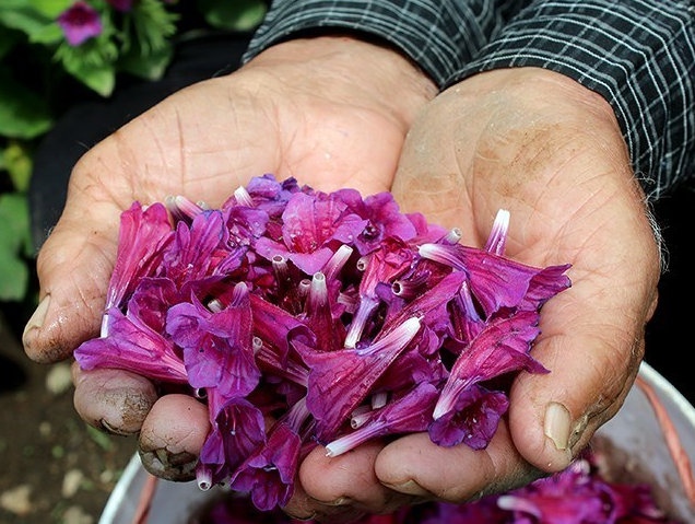 Flowers of Echium Amoenum after harvest in the Northern Province of Gilan, Iran.